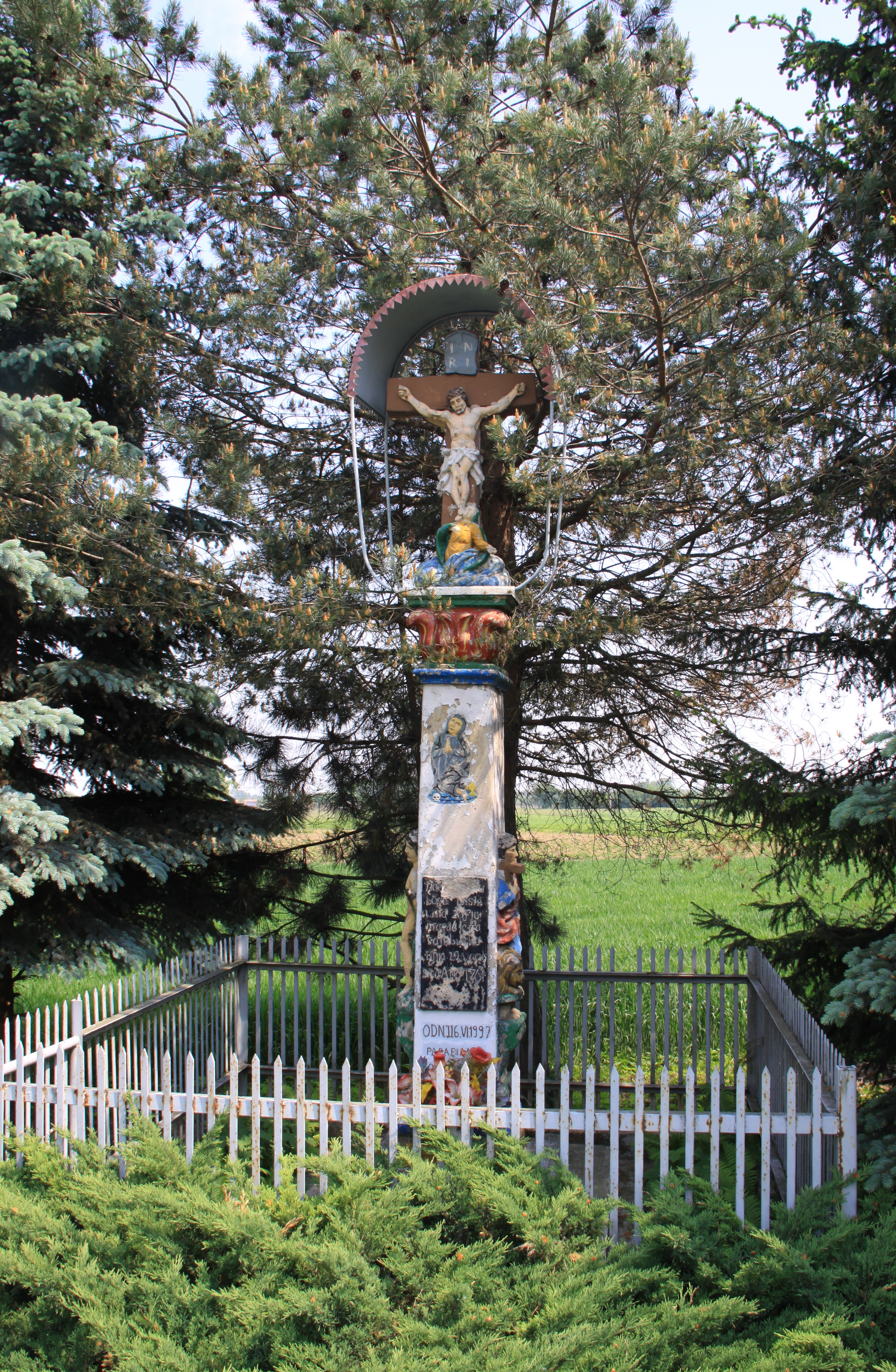 Borusowa - Wayside cross from 1761 near crossroads in village.